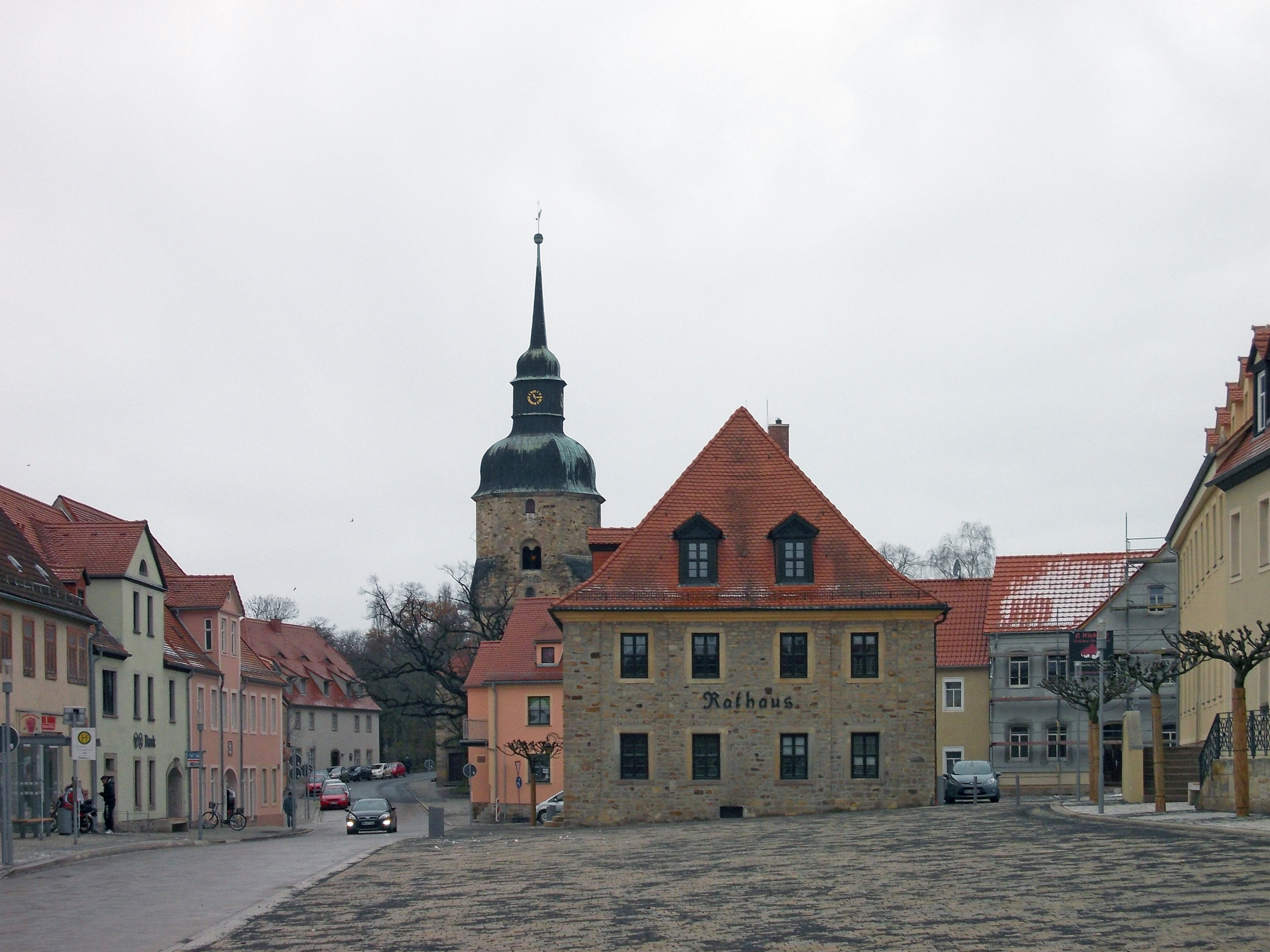 Market square in Bad Lauchstädt (Saalekreis, Saxony-Anhalt)